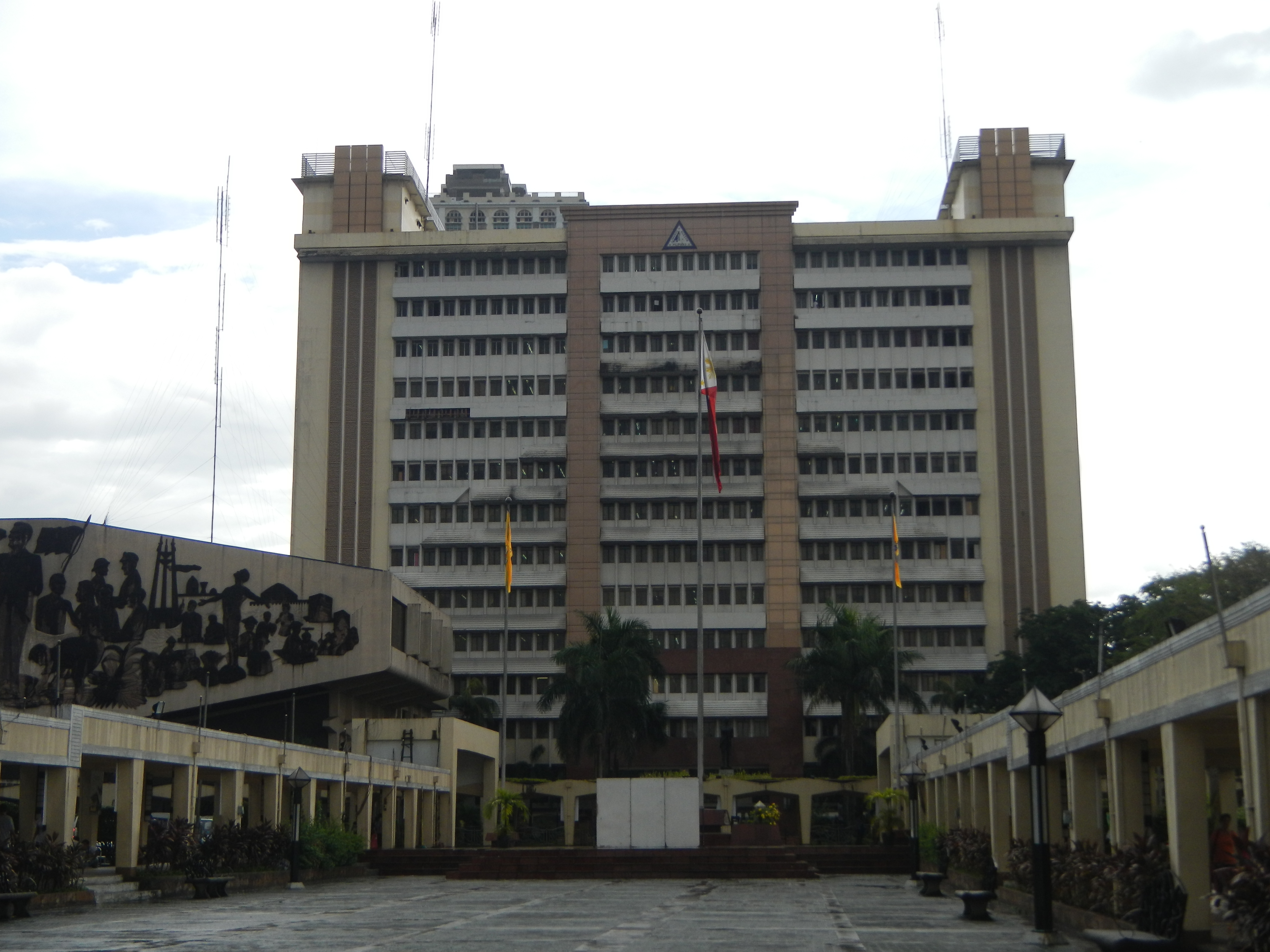 Quezon City Hall also known as Quezon City Hall Complex is the civic center and seat of government of Quezon City; Bordered by Kalayaan Avenue, East Avenue, Elliptical Road, and Matalino Street Coordinates 14.646778°N 121.049919°E Quezon City (bounded by the Elliptical Road, a large 2-km Roundabout and Landmark in Quezon City.